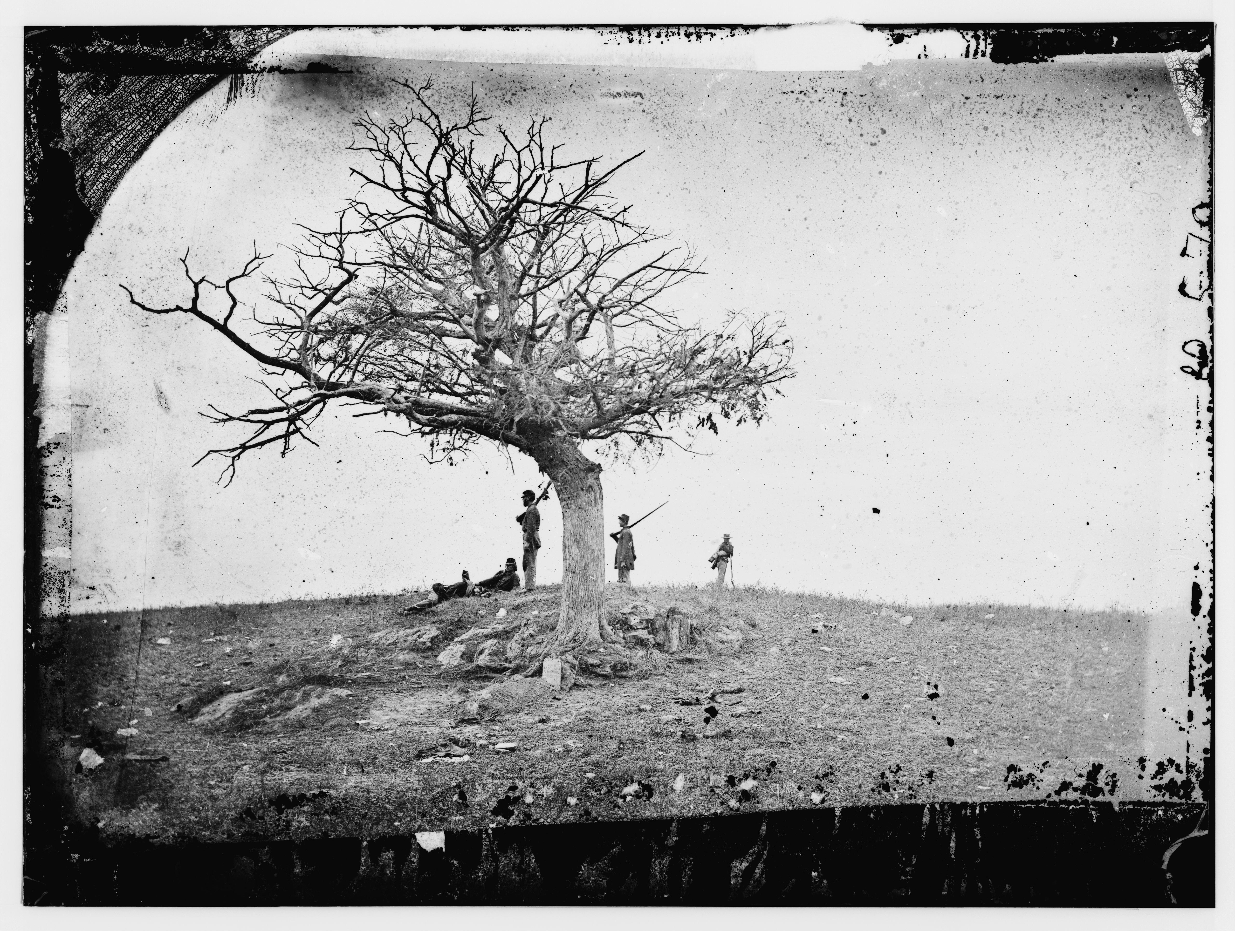 "A Lonely Grave"; title chosen by photographer Alexander Gardner for his shot of Union soldiers standing near a comrade's grave at the battlefield of Antietam, September 1862